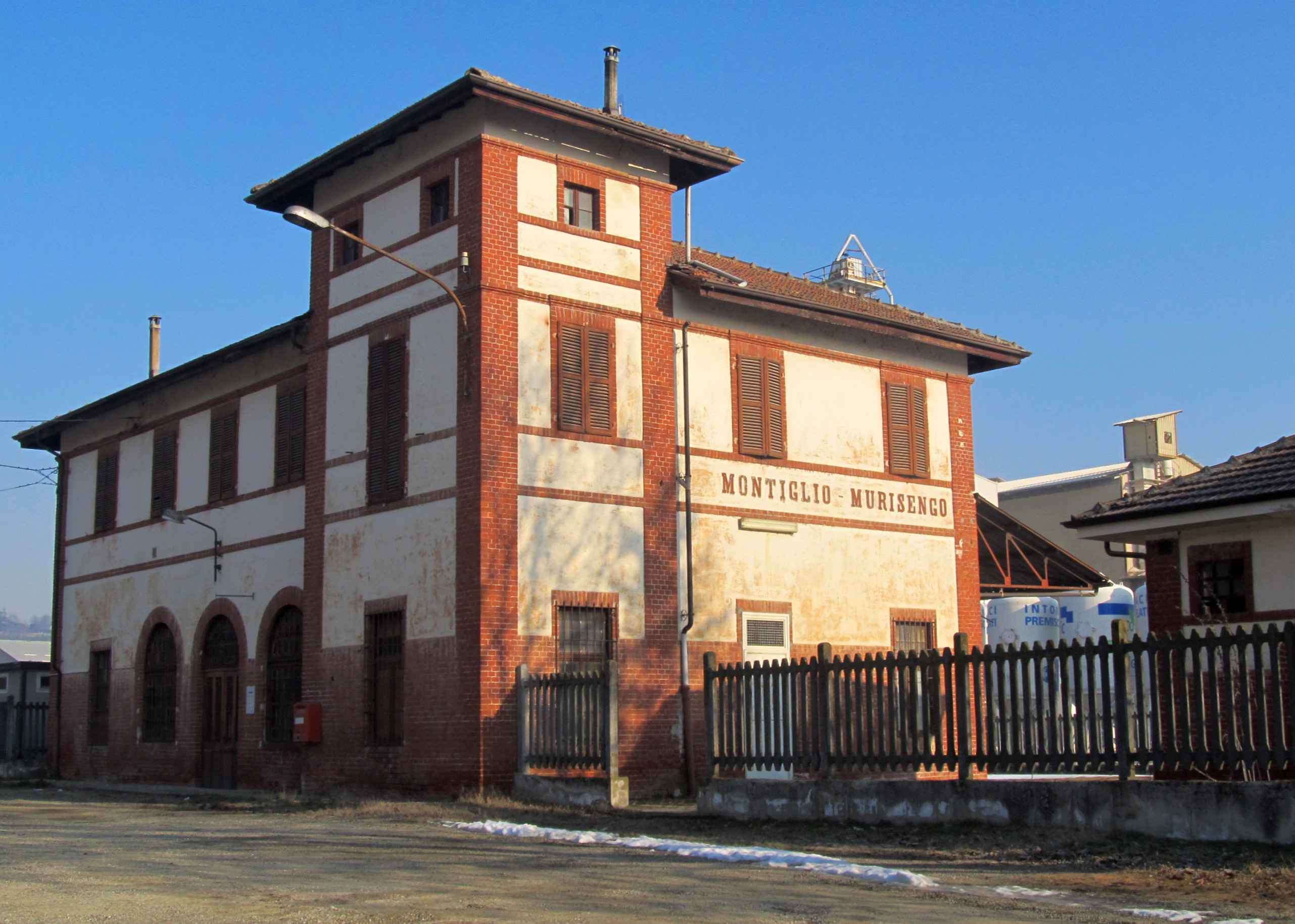 Montiglio-Murisengo train station (winter 2013)